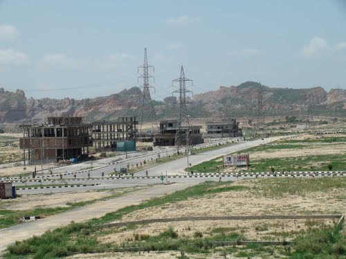 Development progress in B17